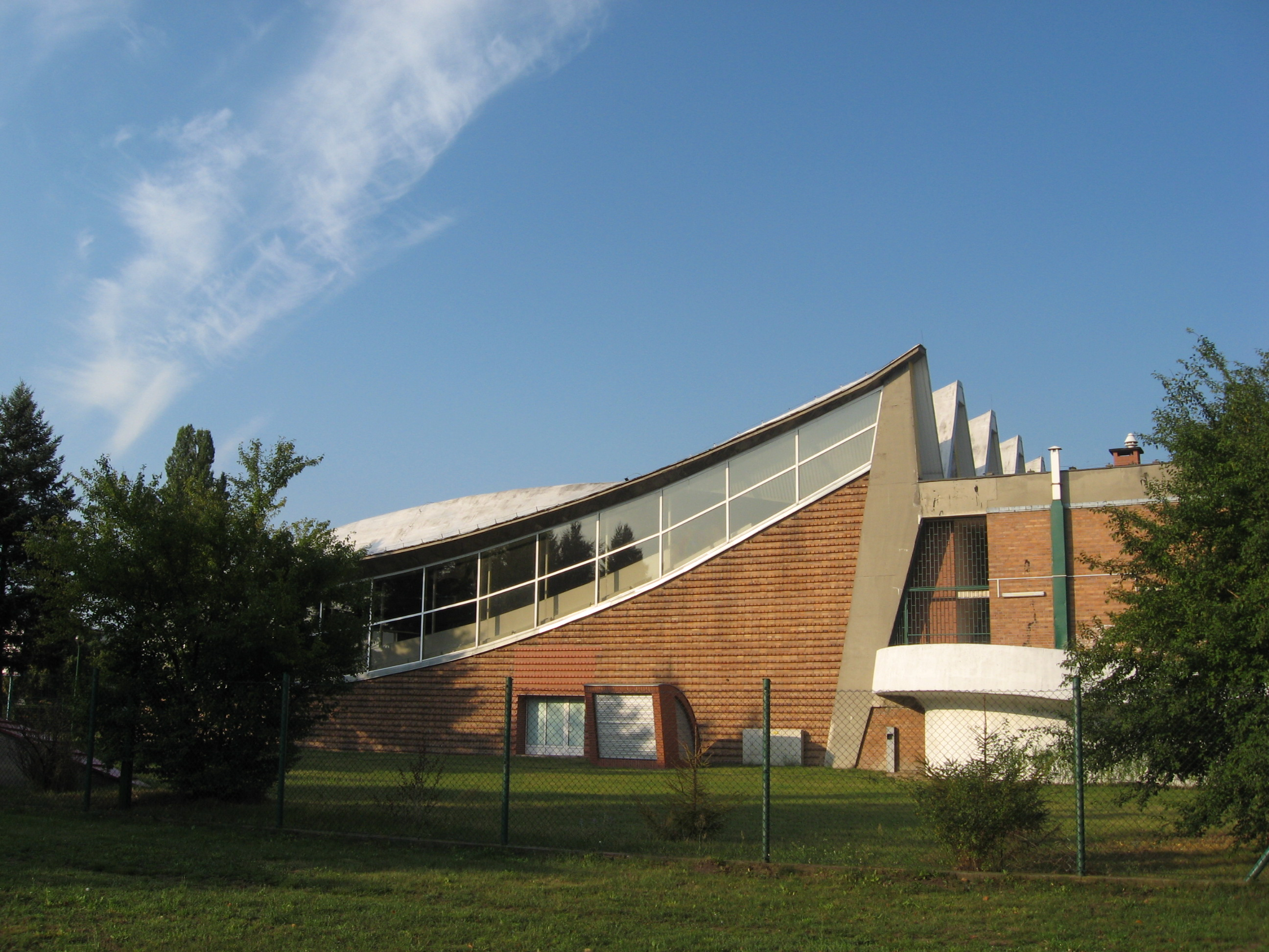 Konin - RONDO centre for sport hall